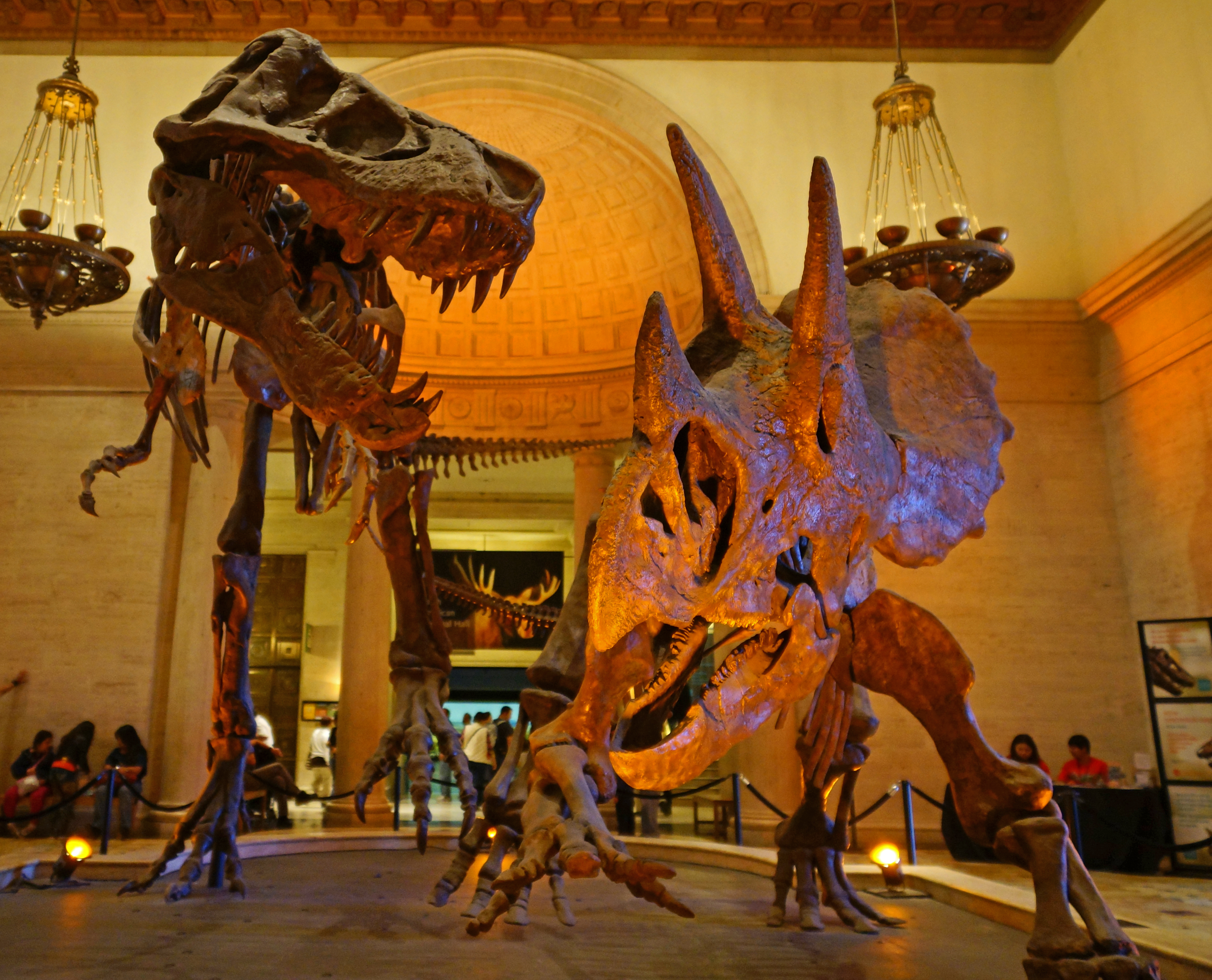 2011-12-23 01-01 Kalifornien 396 Los Angeles, Natural History Museum